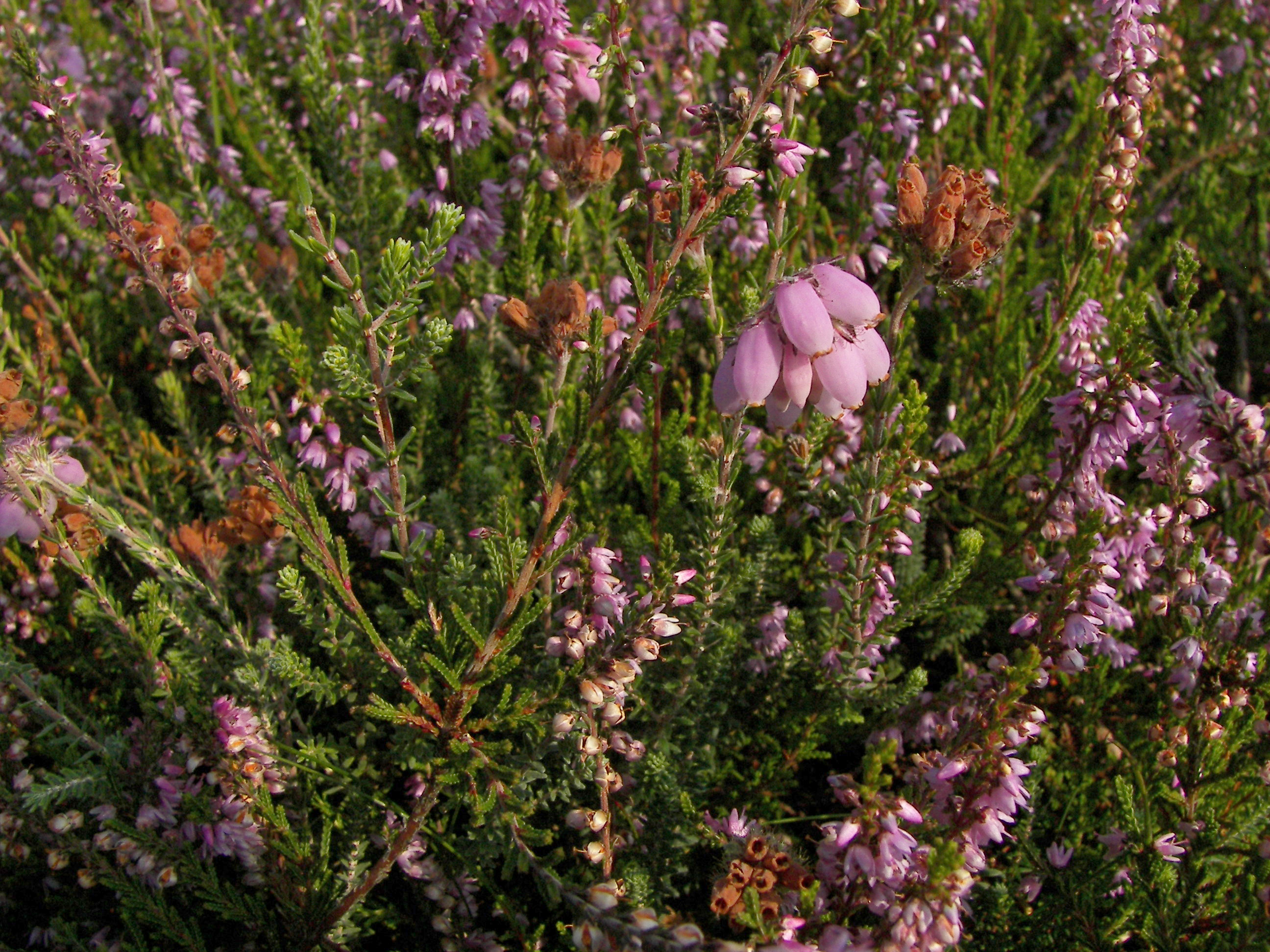 Erica tetralix near Schneverdingen, Lower Saxony, Germany